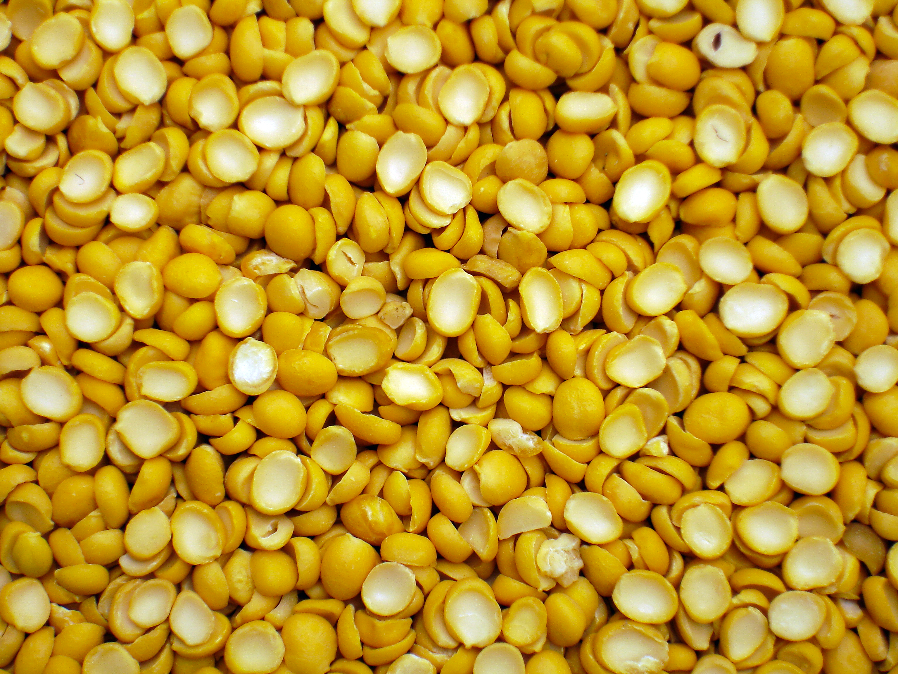 A legume is a plant or its fruit or seed in the family Fabaceae (or Leguminosae).